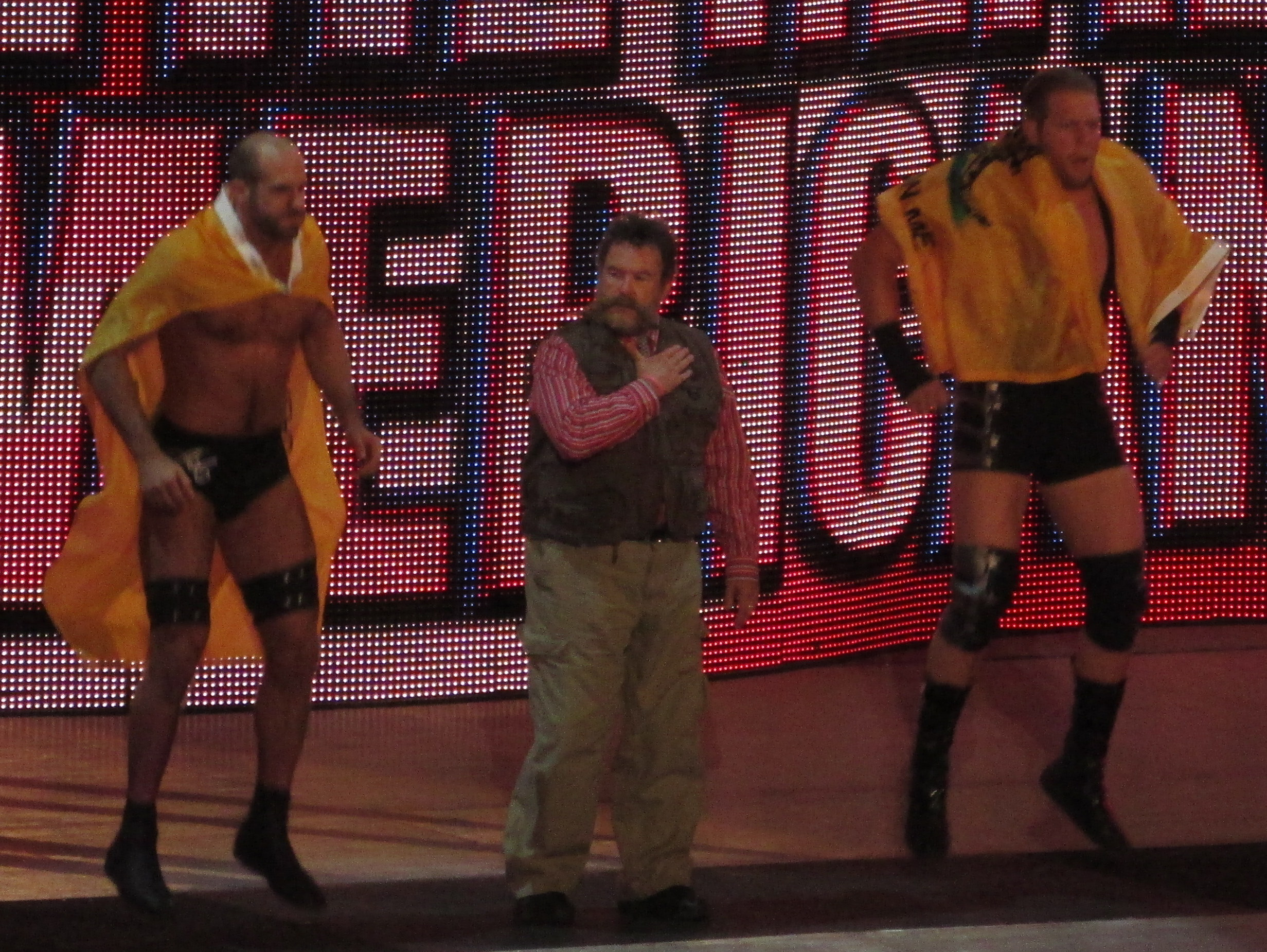 The Real Americans (from left to right): Antonio Cesaro (Claudio Castagnoli), manager Zeb Colter (Dutch Mantel), and Jack Swagger (Jake Hager). Cropped from original.